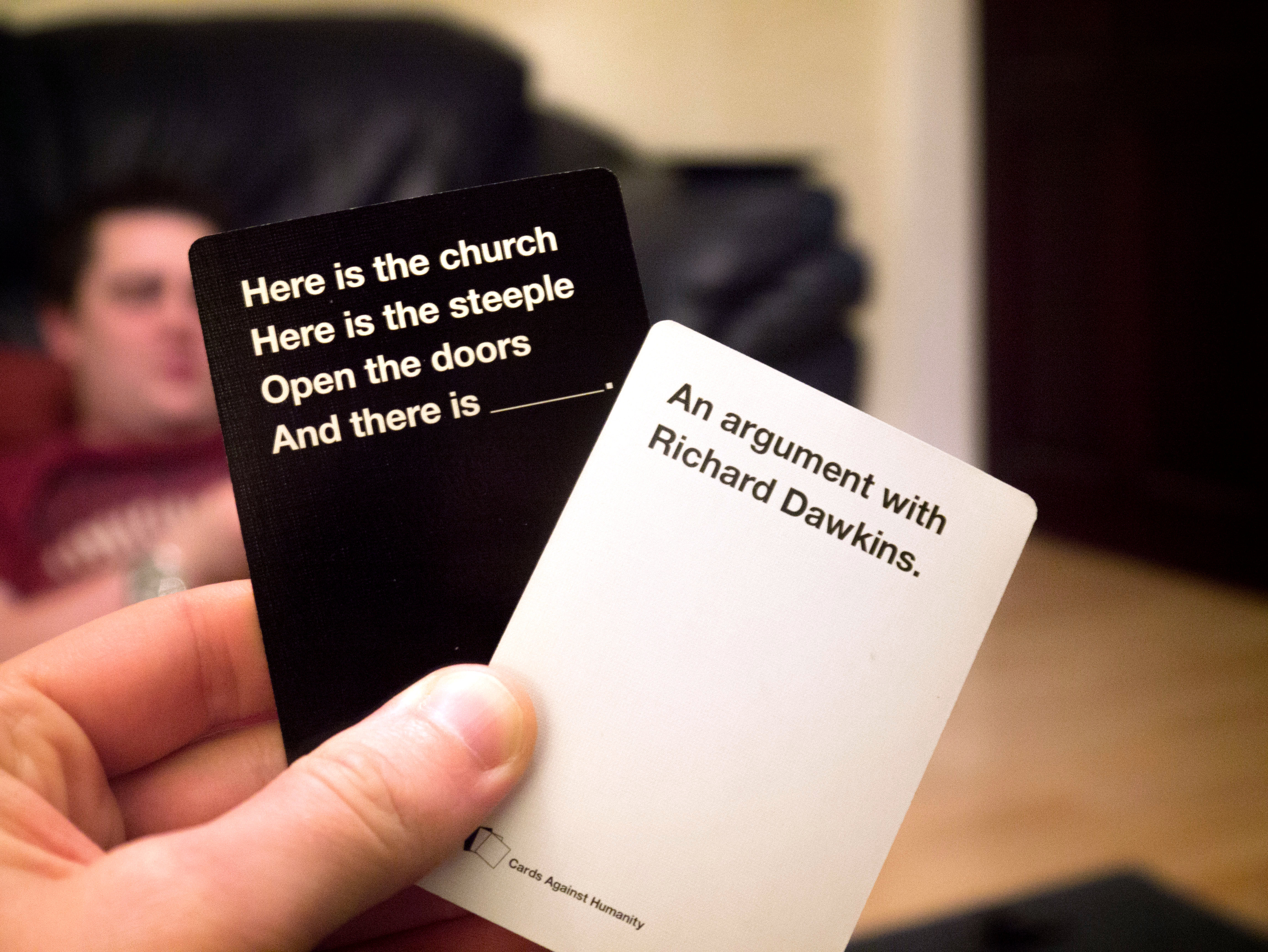 A white card and a black card from Cards Against Humanity.